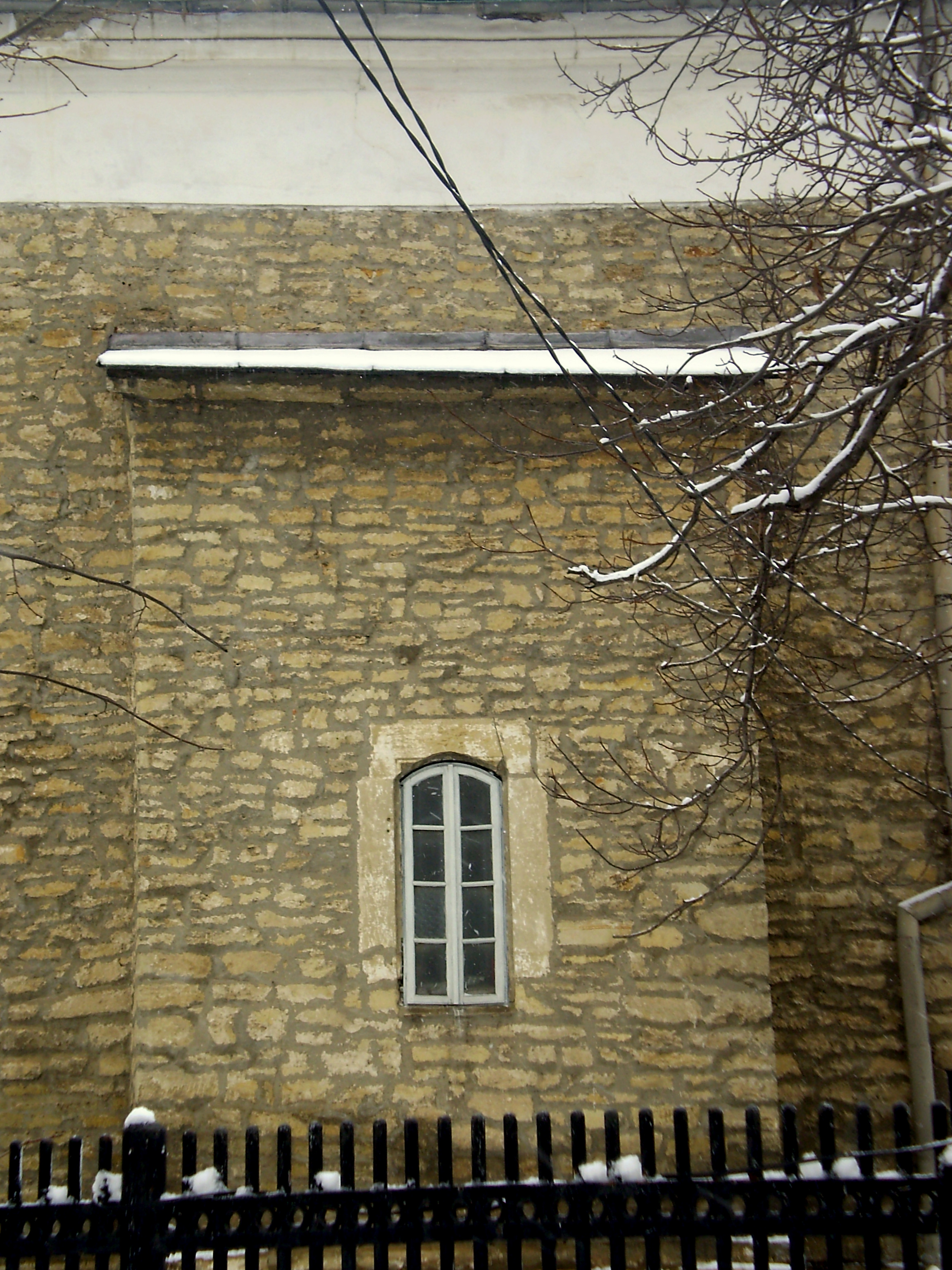 Iaşi , Zlataust Church , detail , Iaşi , Romania